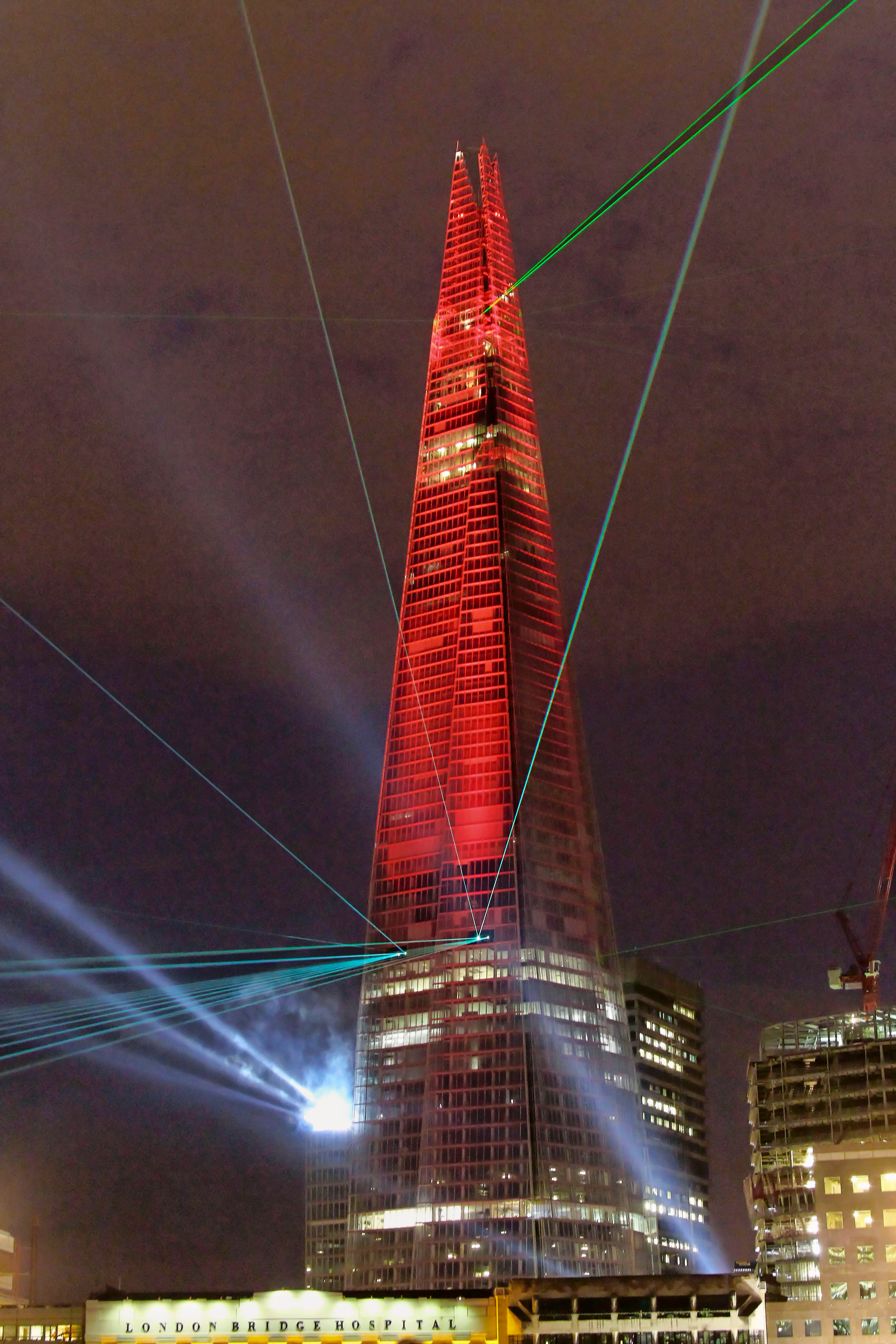 The Shard, the tallest building in western Europe, London, UK during the inauguration ceremony on 5 July 2012. The ceremony concluded with a light show of coloured lasers beamed at the Shard from other buildings.